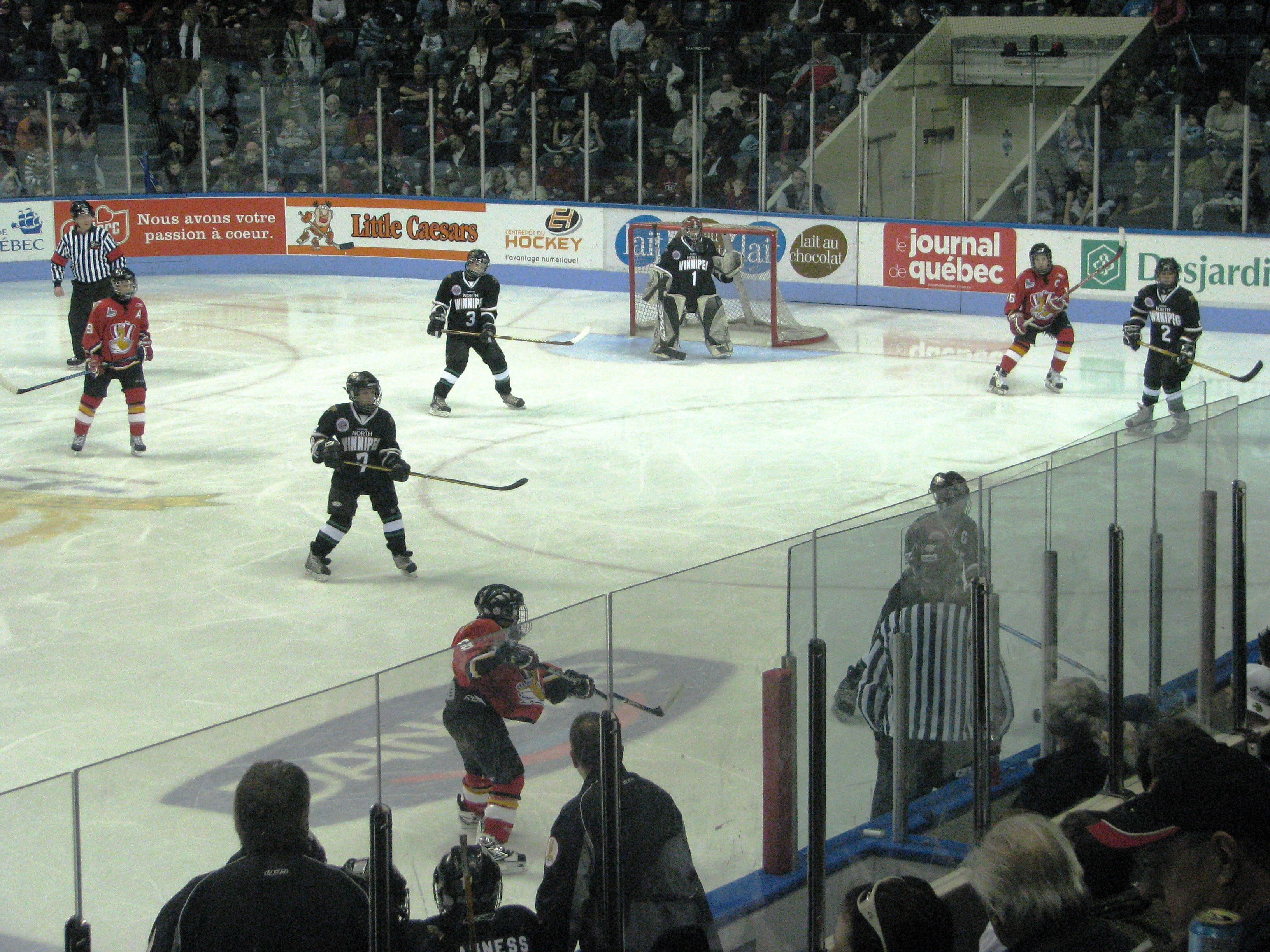 Play during Quebec City's International Pee-Wee Tournament, 2009